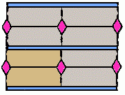 Cell diagram for wallpaper group type pmg. Clipped version of Wallpapercellpmg.gif.